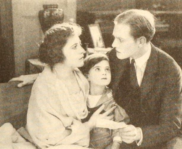 Still with Lois Wilson, Michael D. Moore, and Conrad Nagel in the American silent film The Lost Romance (1921), from page 41 of the July 1921 Photoplay magazine. Michael D. Moore as a child actor was credited as Mickey Moore.